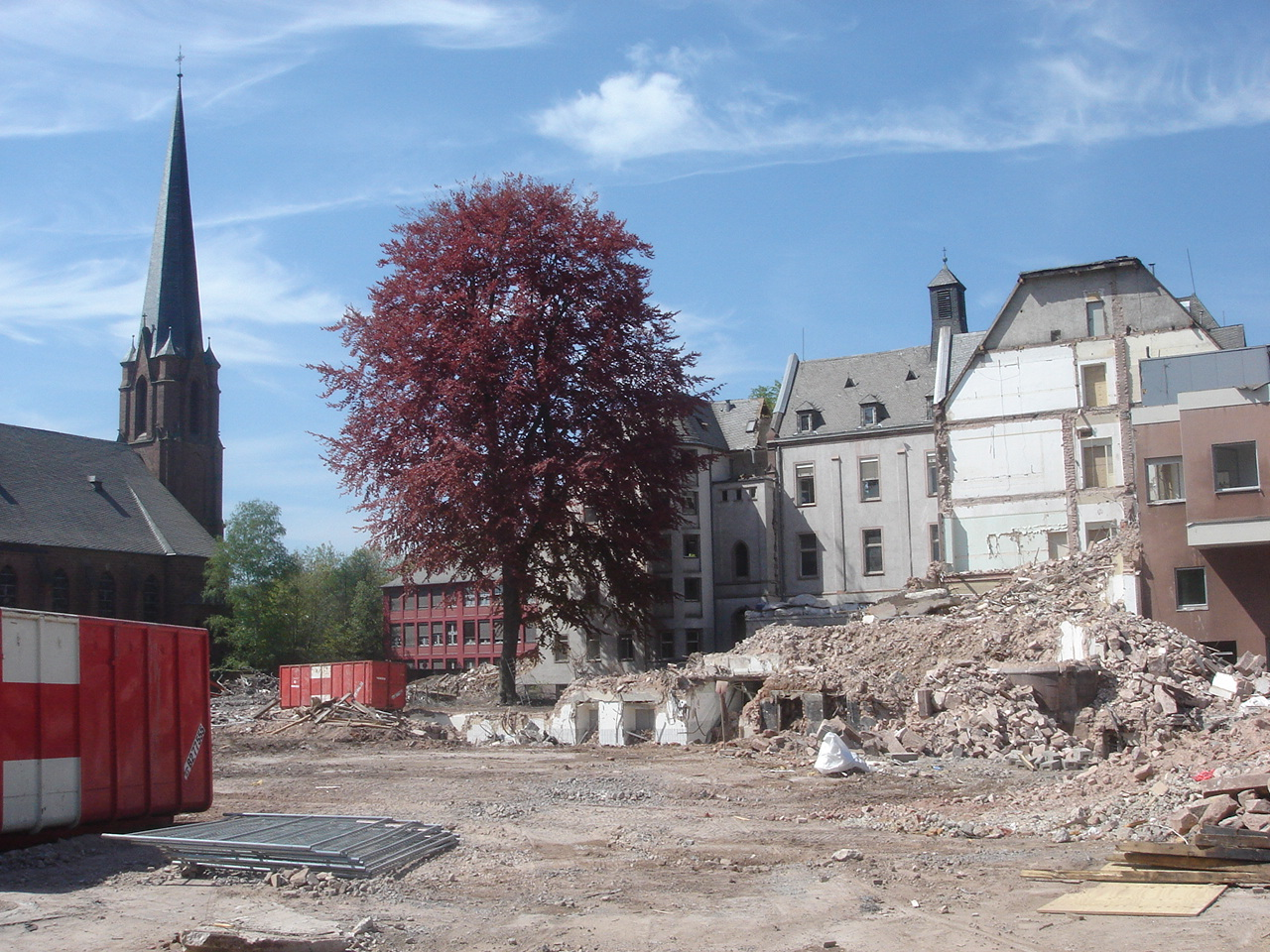 Demolition of Herz Jesu Hospital in Trier, Germany